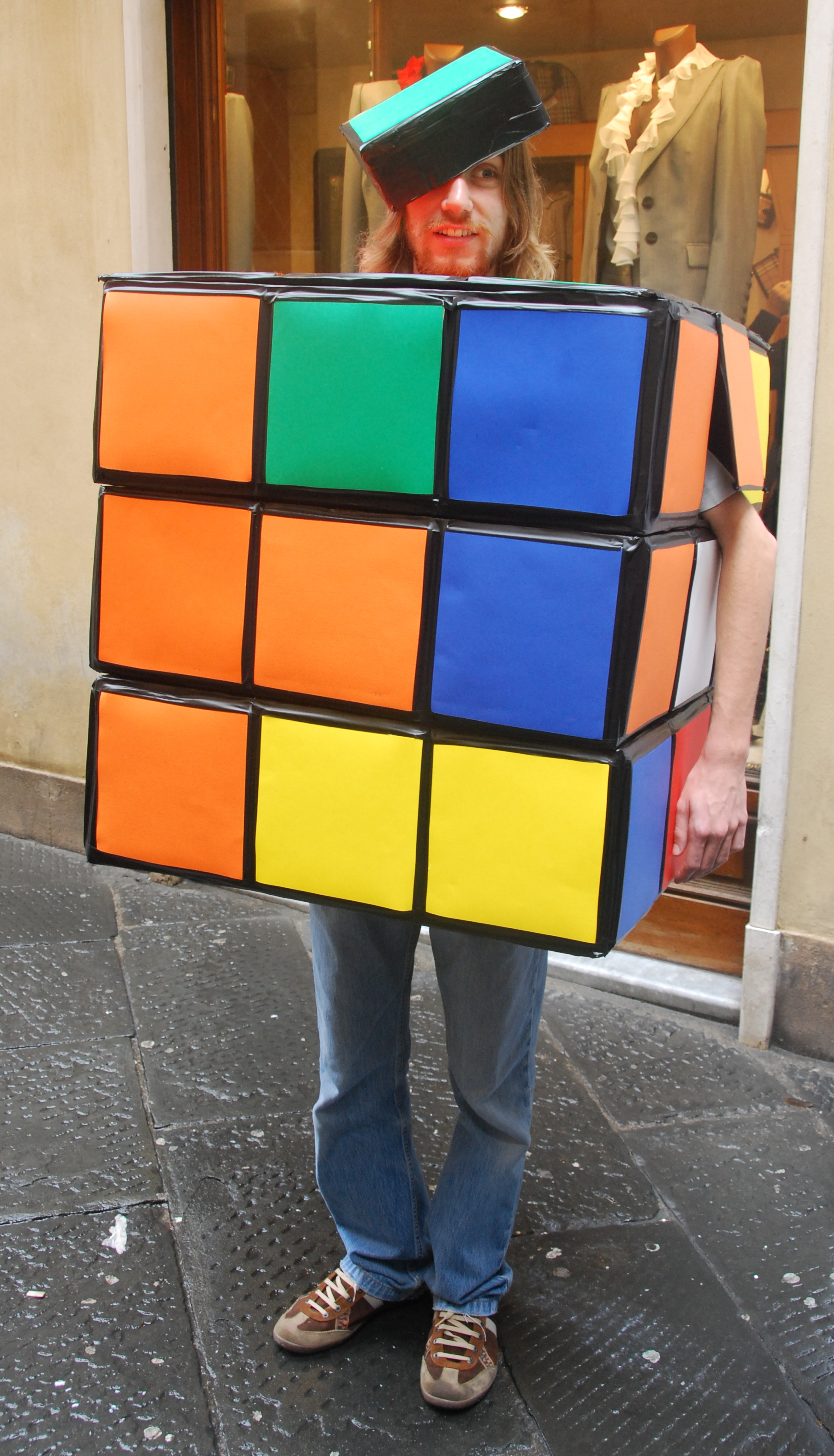 Cosplay as a Rubik's Cube at Lucca Comics and Games 2008